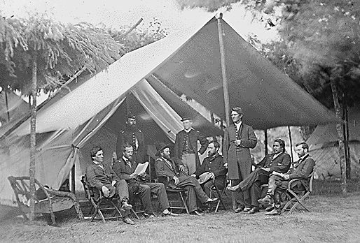 General U.S. Grant (third seated from left) with his staff. Seated from left, excluding Grant, Maj._O.E._Babcock,_Col._Wm._McK.Dunn,_Capt._Henry_W._Janes,_Col._Ely_S._Parker,_Gen._Cyrus_B._Comstock. Standing from left - Capt._Peter_T._Hudson,_Col._Michael_R._Morgan,_Gen._John_A._Rawlins